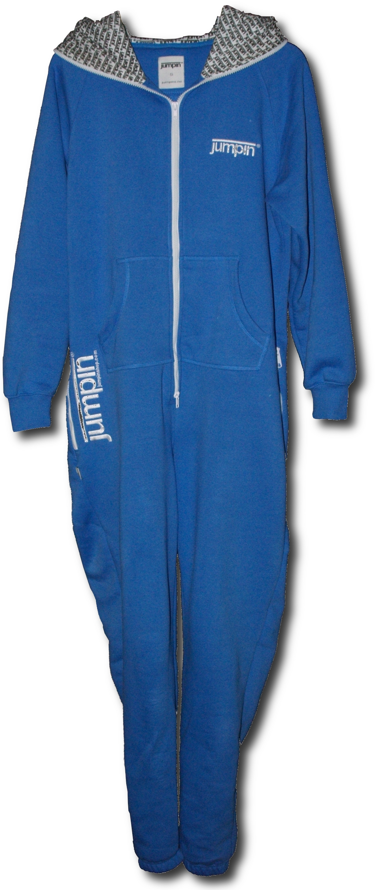 One-piece suit "heldress", loose fit, made of heavy sweatshirt material. Note the roomy hood.